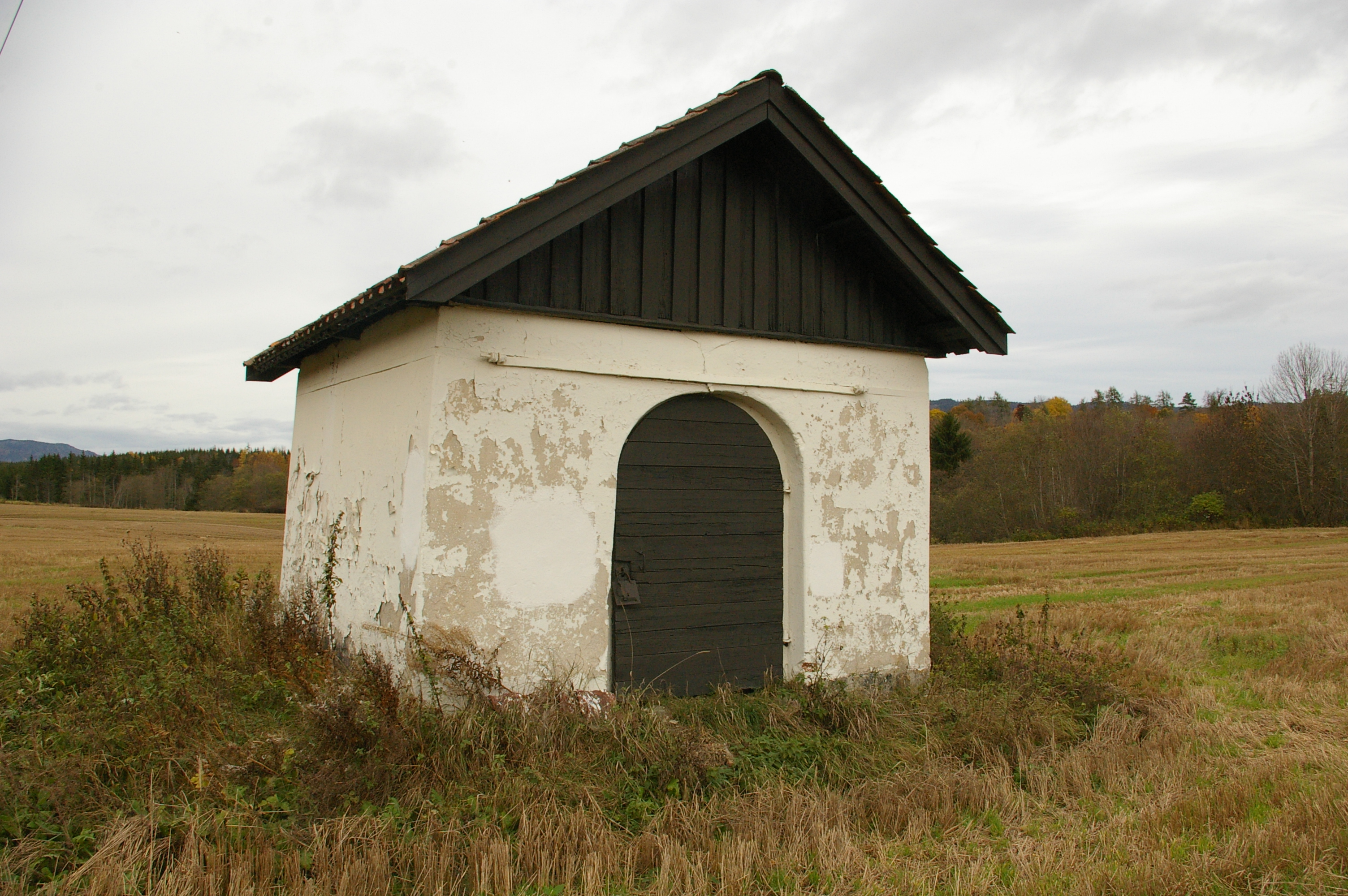 Gunpowder magazine at Fossum Jernverk